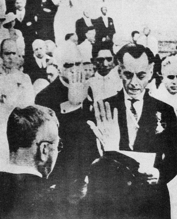 First inauguration of Philippine Commonwealth President Manuel Quezon at the steps of the Legislative Building in Manila on November 15, 1935.